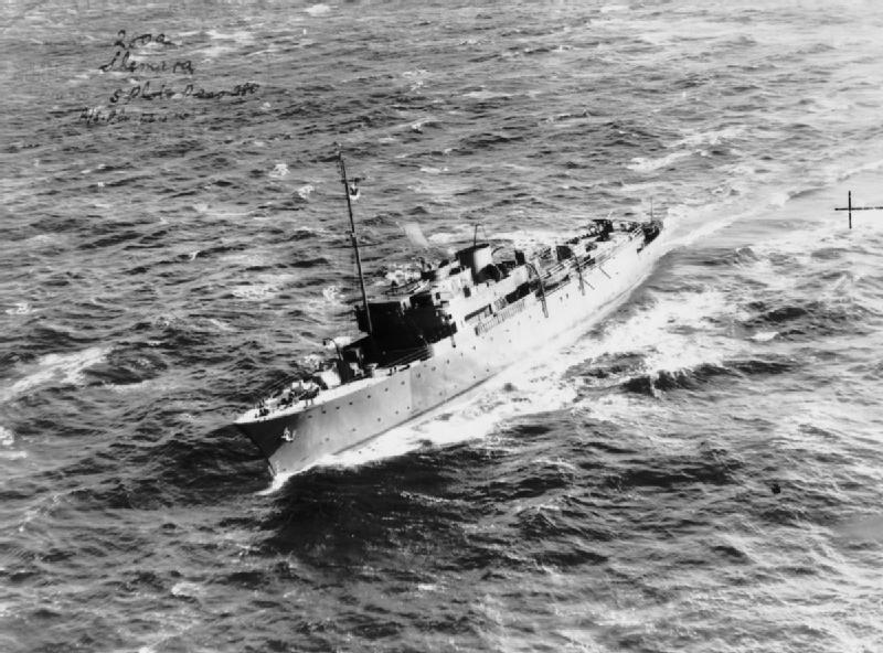 HMS Shemara Underway.